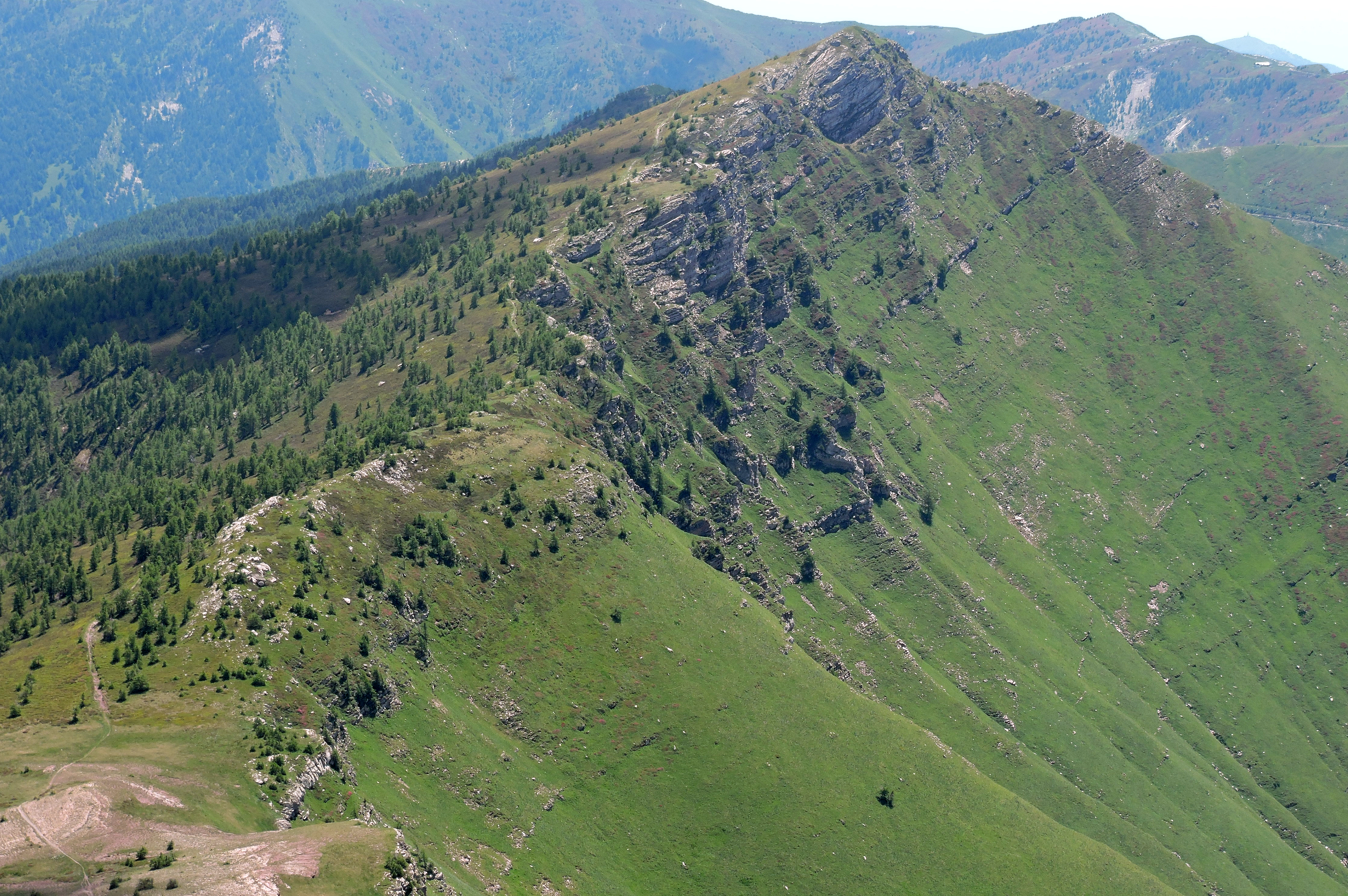 Cime Missoun and Colla Rossa (Ligurian Alps) as seen from Mount Bernard